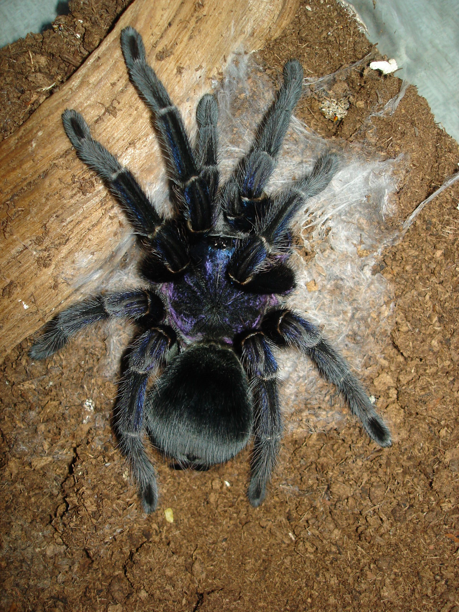 Phormictopus cancerides cancerides, adult female